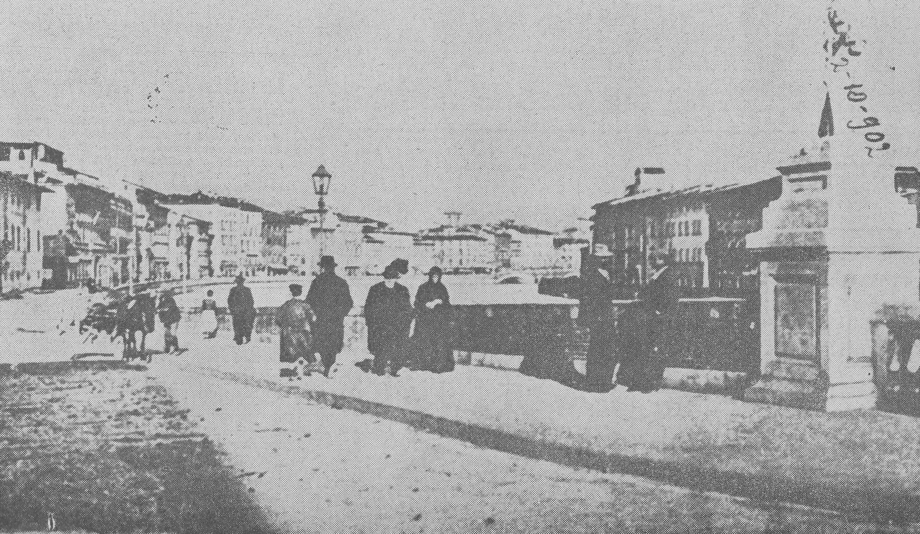 Lungarno Regio (today Pacinotti) in Pisa, Tuscany, Italy.